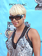 Keyshia Cole at the BET Hip Hop Awards in Atlanta. October 14, 2007. Photo by Travis Hudgons/PictureAtlanta.Net